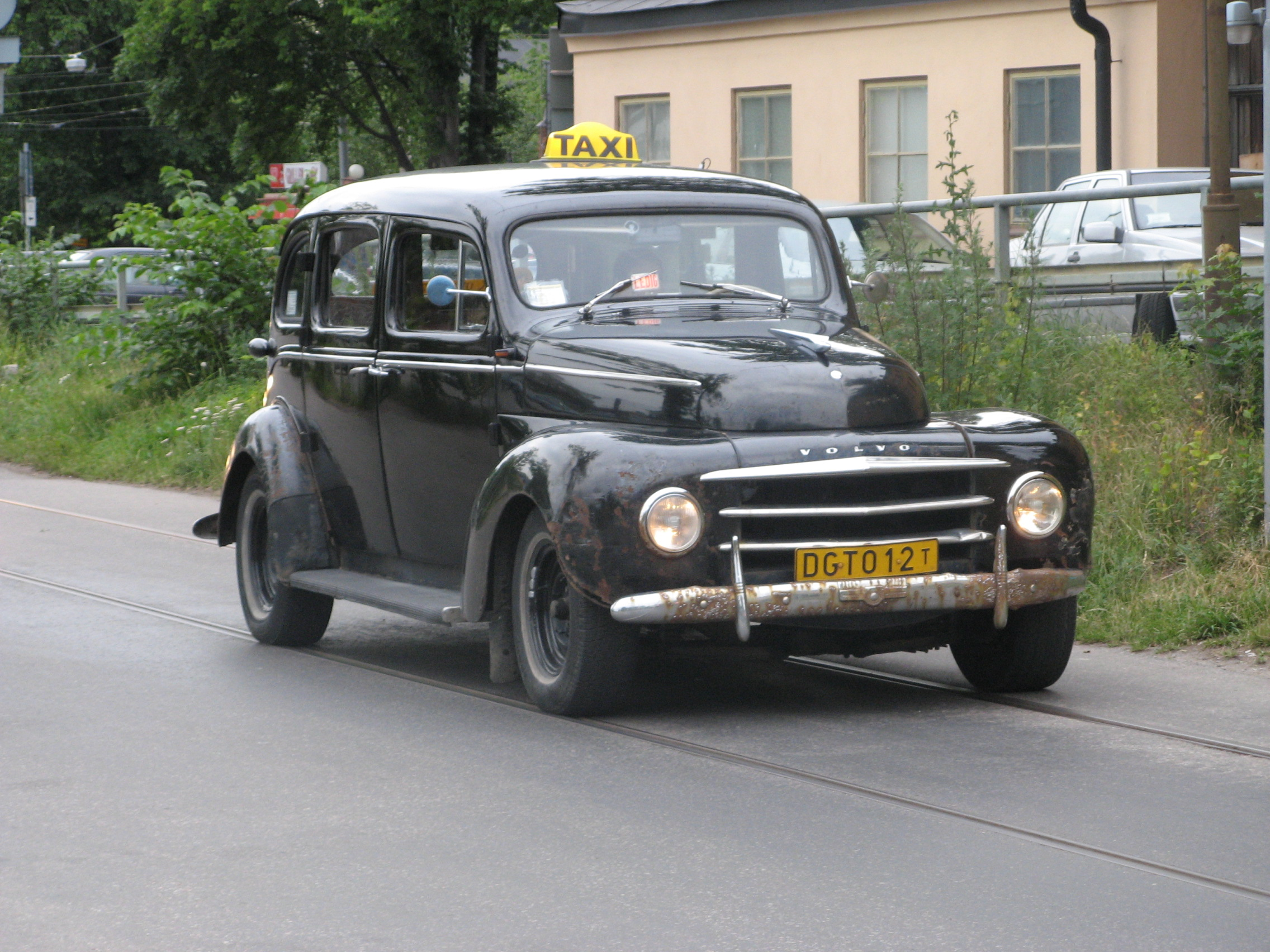 An old Volvo taxicab.